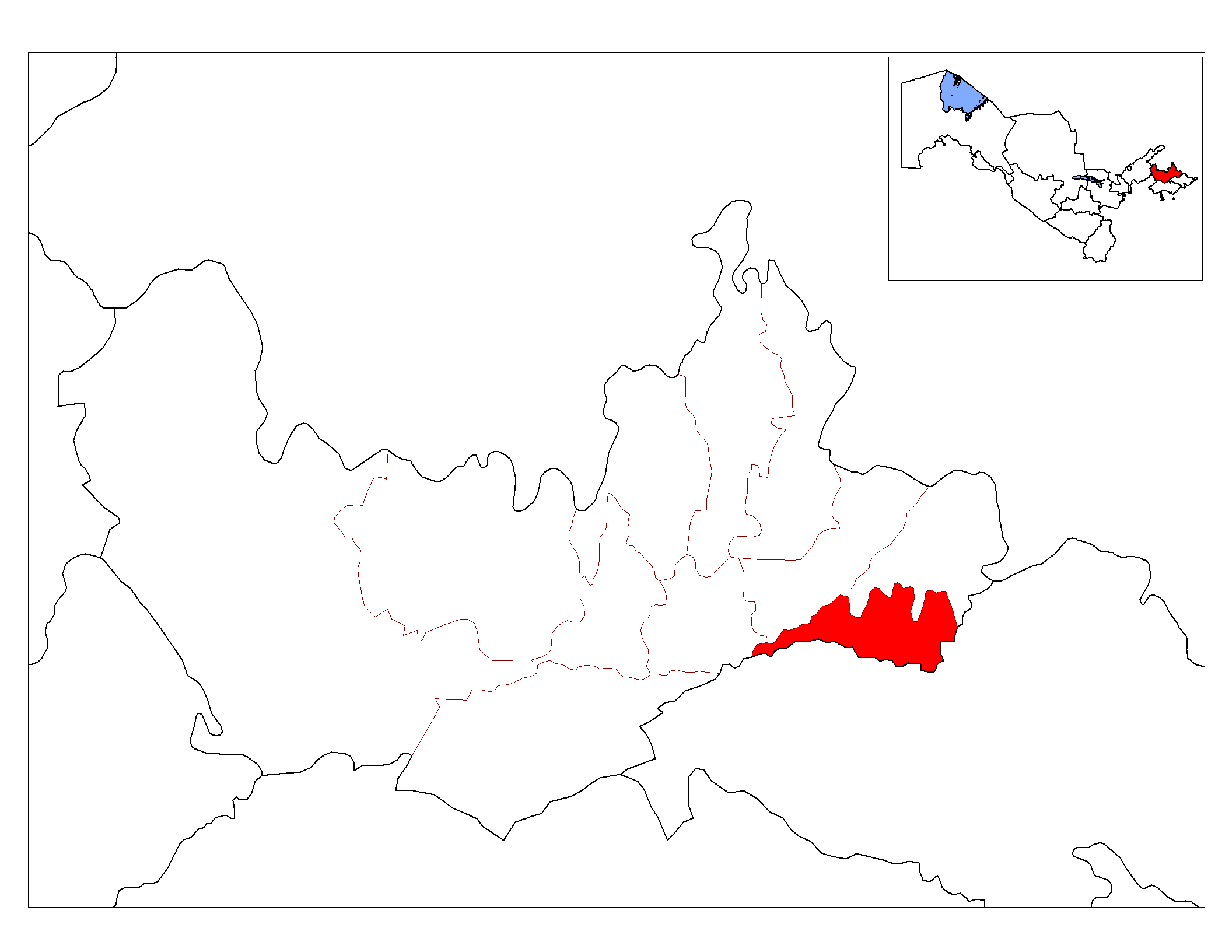 Location map of Norin District in Namangan Province